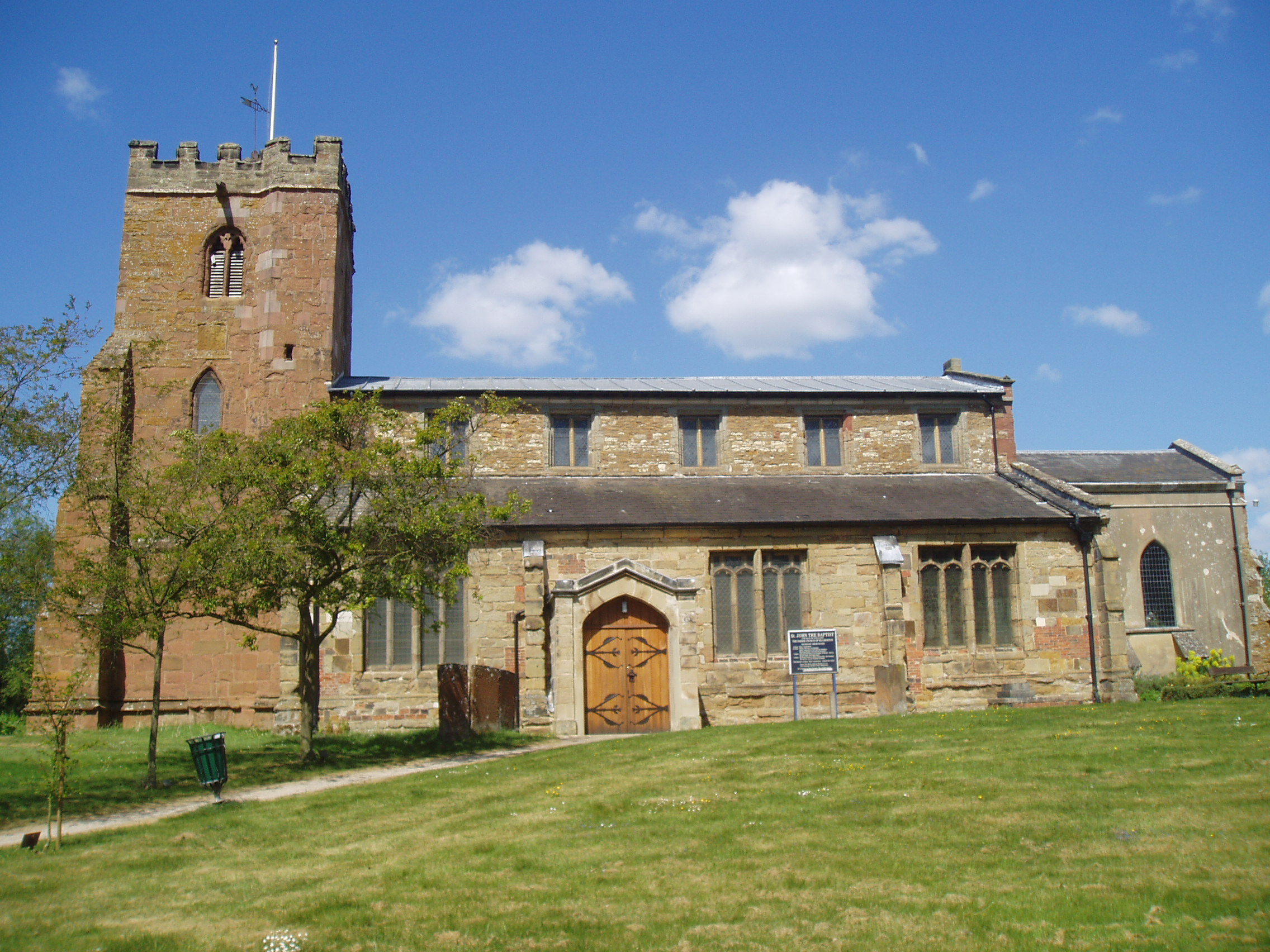 Church Of Saint John The Baptist Wikidata has entry Q17550829 with data related to this item.